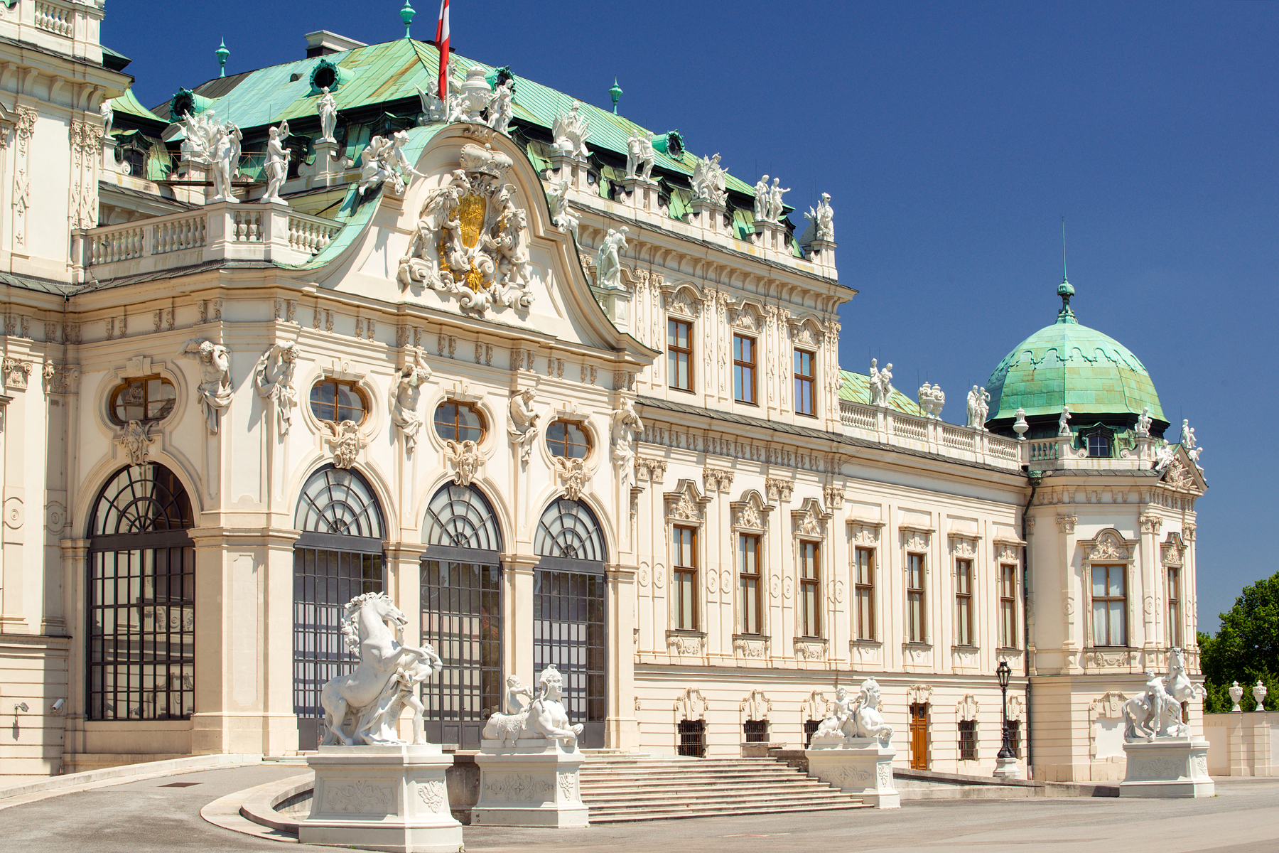 Upper Belvedere Entrance, 2015